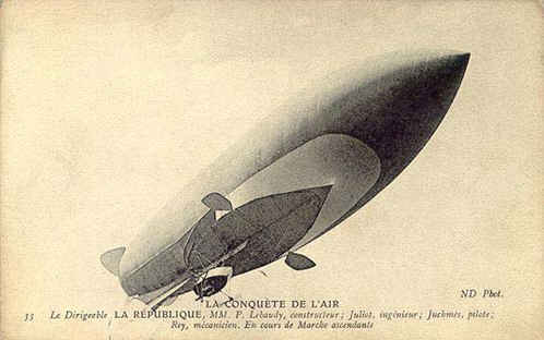 Photogtaph of the French Airship "Lebaudy République" from below, showing the pointed bow, the gondola and the port and starboard ailerons